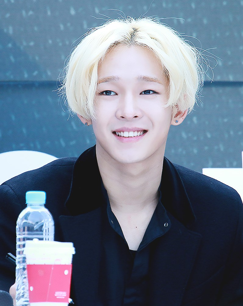 Nam Tae-hyun at a fanmeeting in Sinchon, in February 27, 2016.